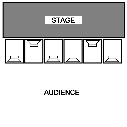 Six subwoofers in a so-called cardioid subwoofer array, or CSA. Derived from D&B Audiotechnik technical information document number 330, available at